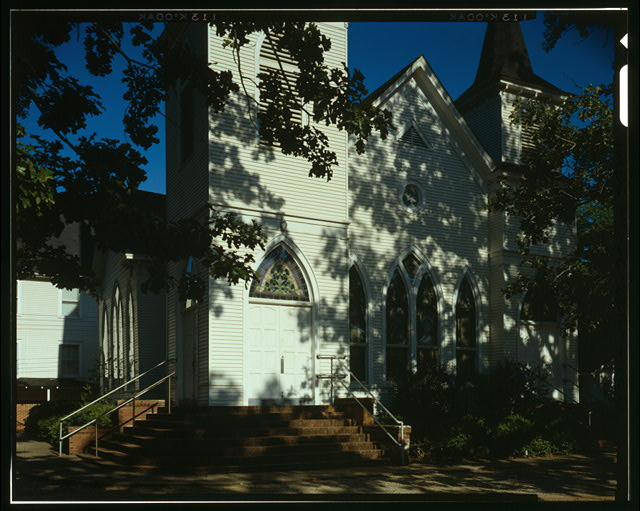 Plains Baptist Church, Bond & Paschal Streets, Plains, Sumter County, GA. President Jimmy Carter was baptized here.